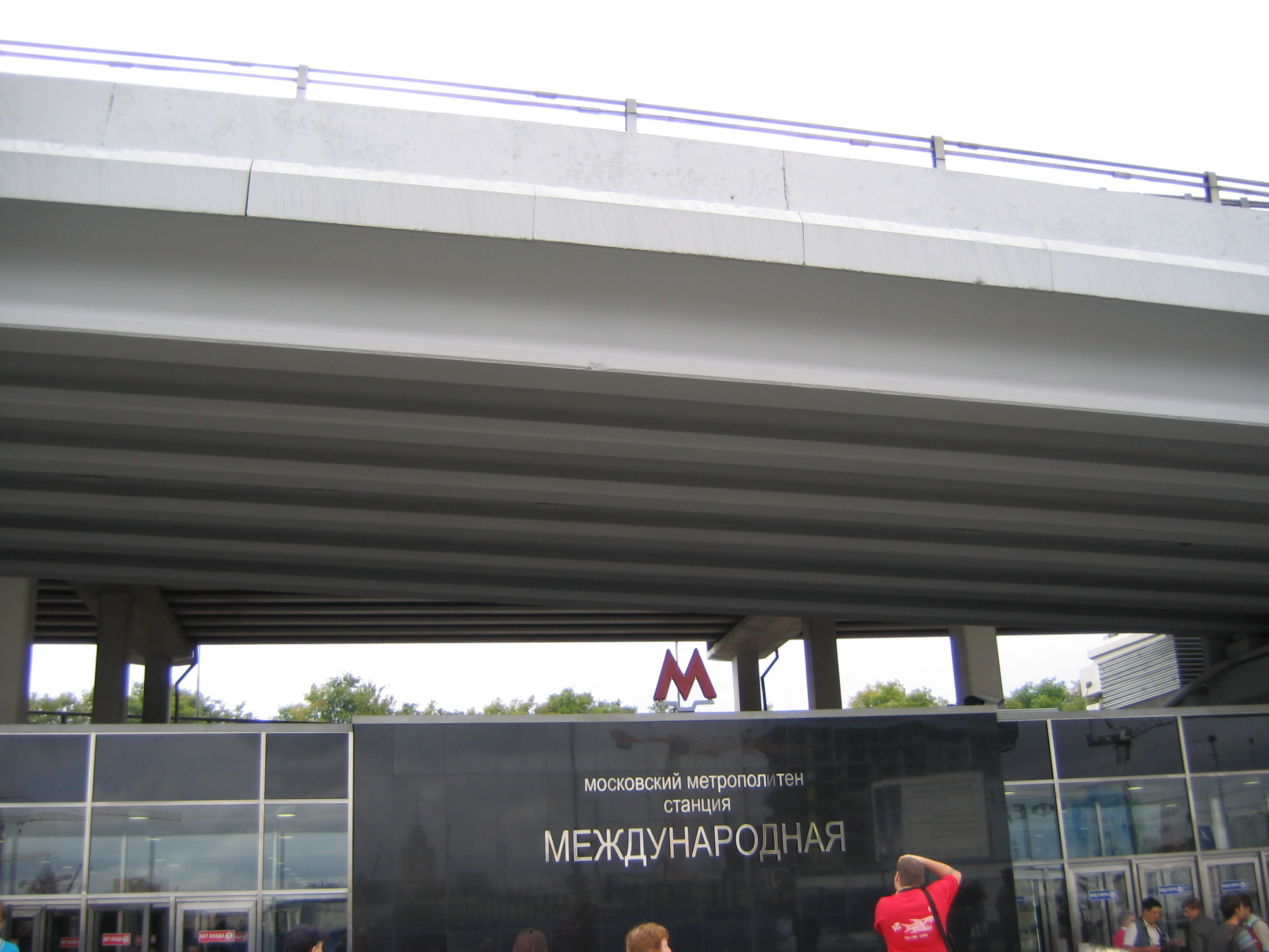 Mezhdunarodnaya station of Moscow Metro